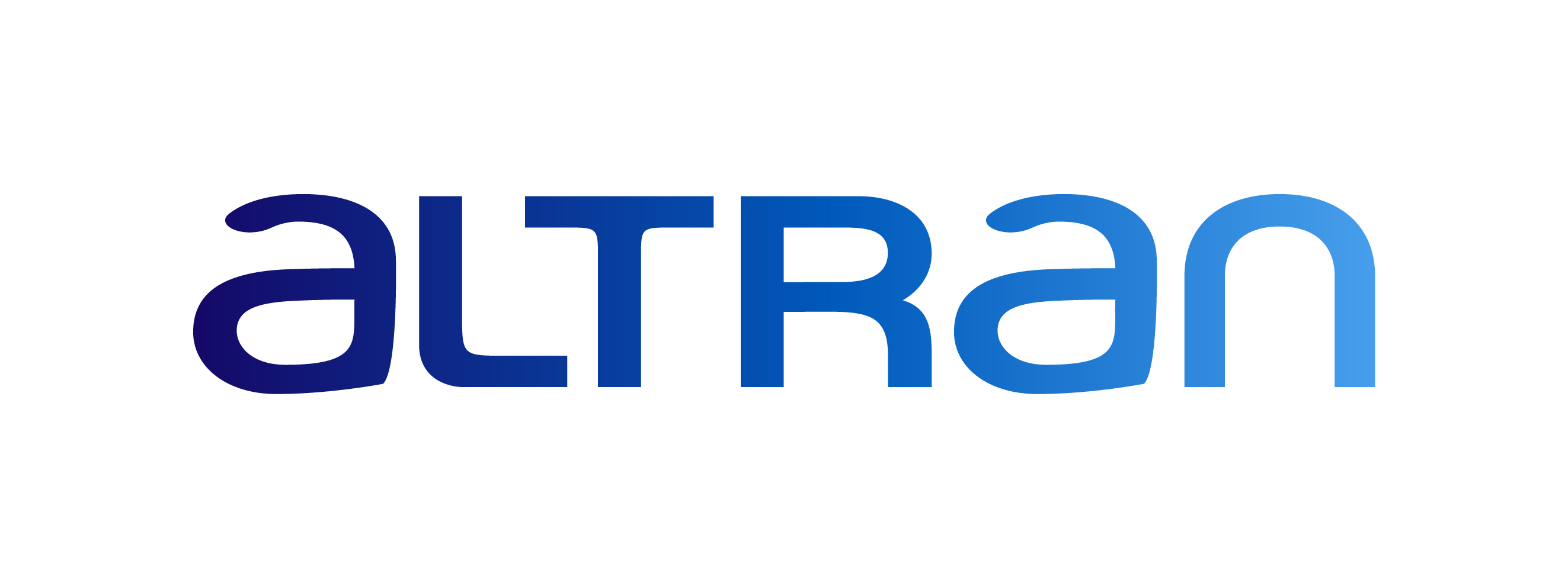 Logotype for the Altran Group